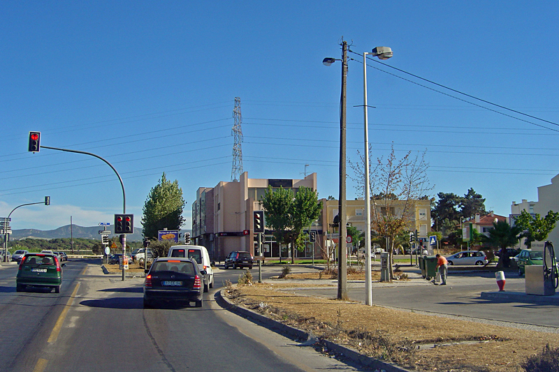 Quinta do Conde, Sesimbra, Portugal. 2008.